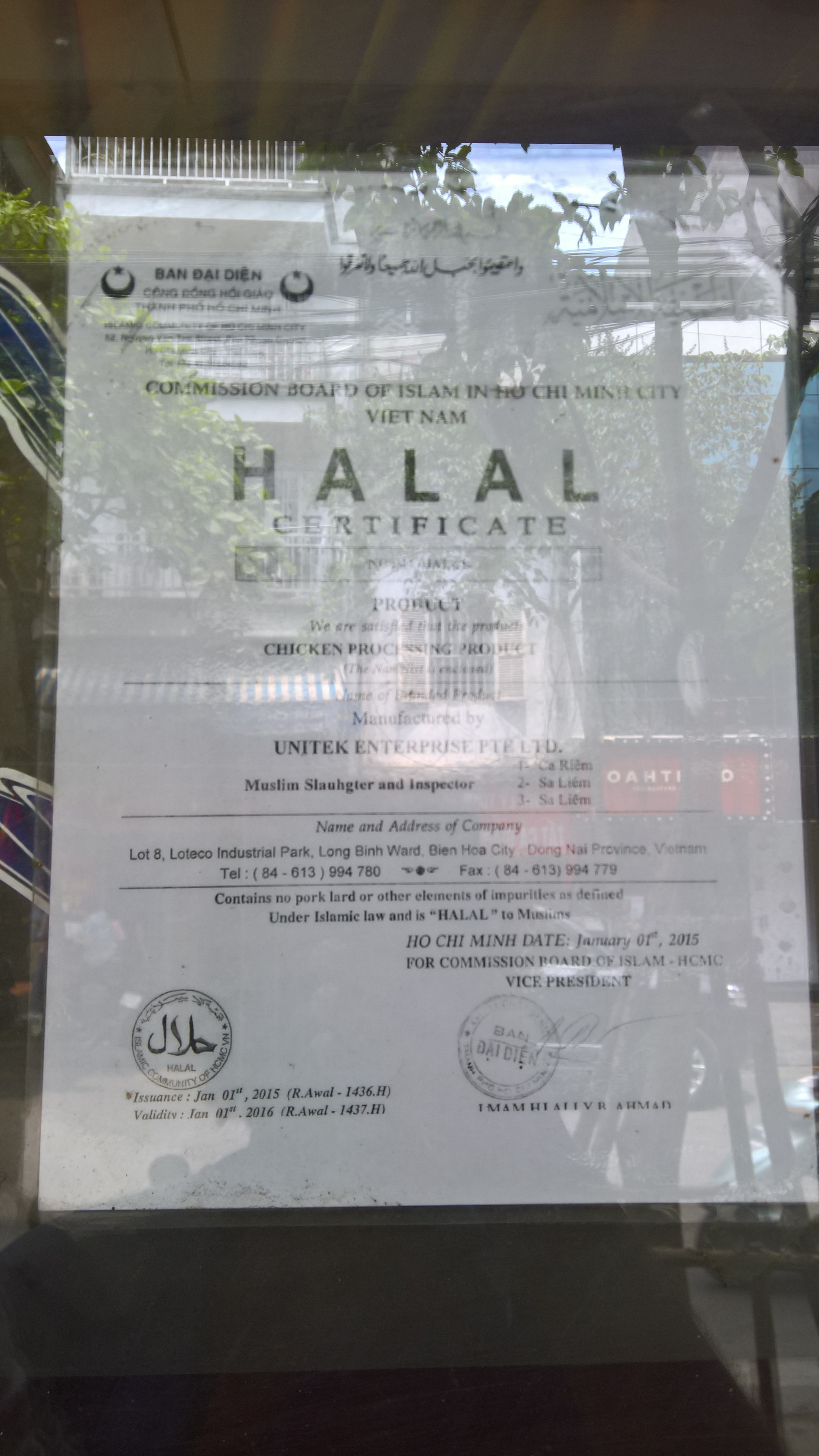 Khazaana Halal certificate 2017.